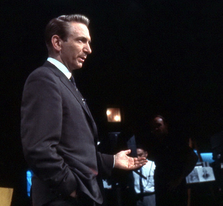 Dr. Burke at NBC